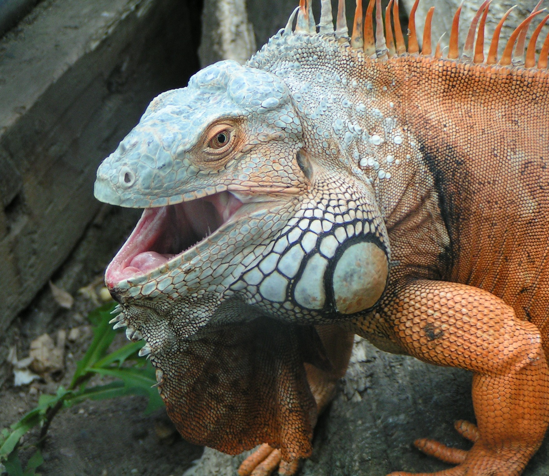 Green Iguana in ZOO Chleby, Czech Republic.